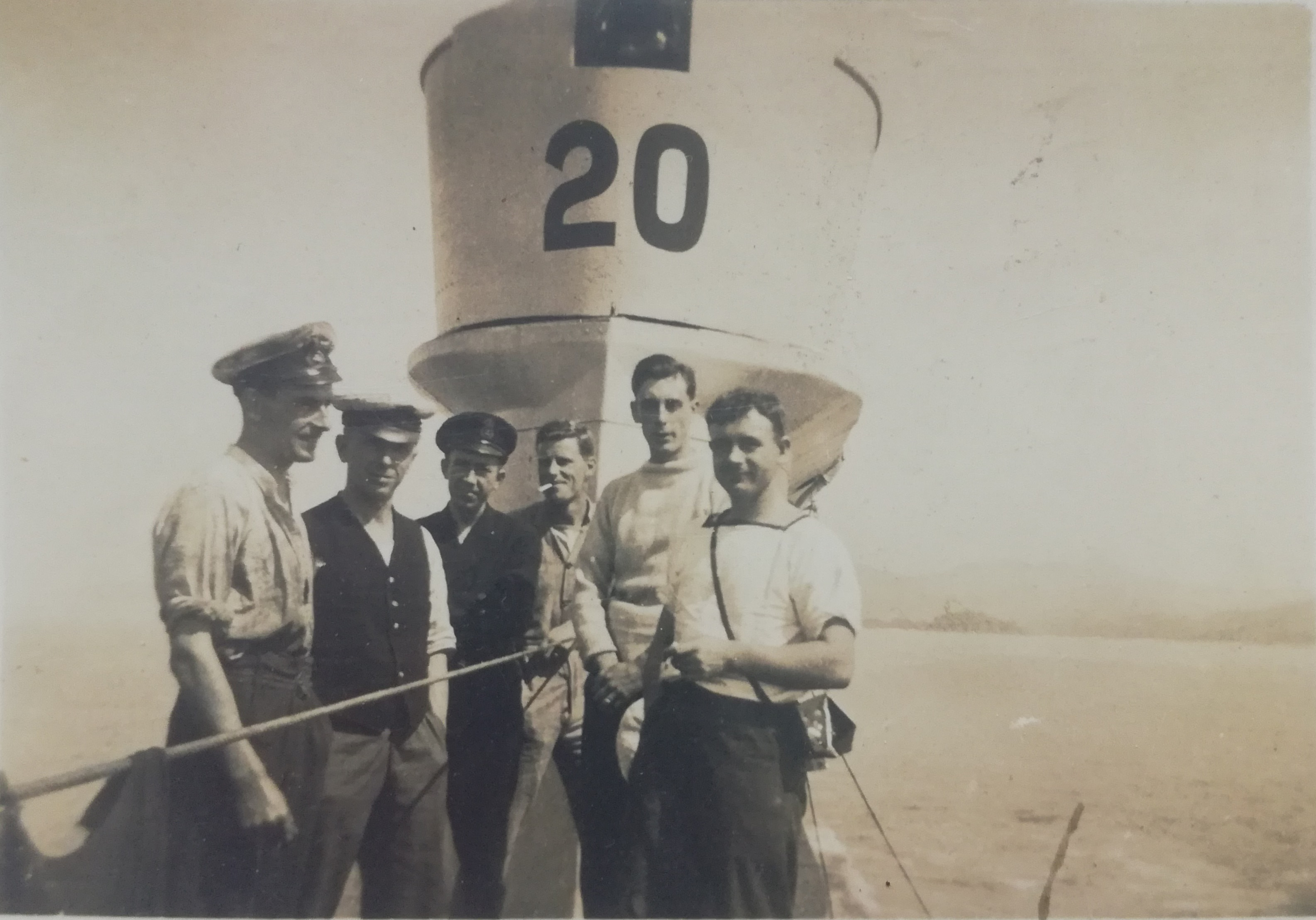 L20 submarine at Bias Bay (Daya Bay), February 1929